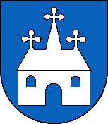 Coat of arms of Holíč, Slovakia